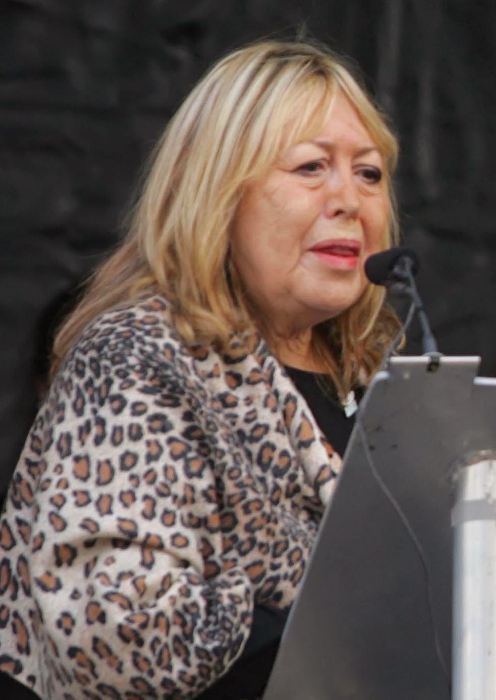 Julian and Cynthia Lennon unveil European Peace Monument in Liverpool to celebrate John Lennon's 70th birthday. Picture by Nathan Cox 07768445021 / Usual Rates Apply.